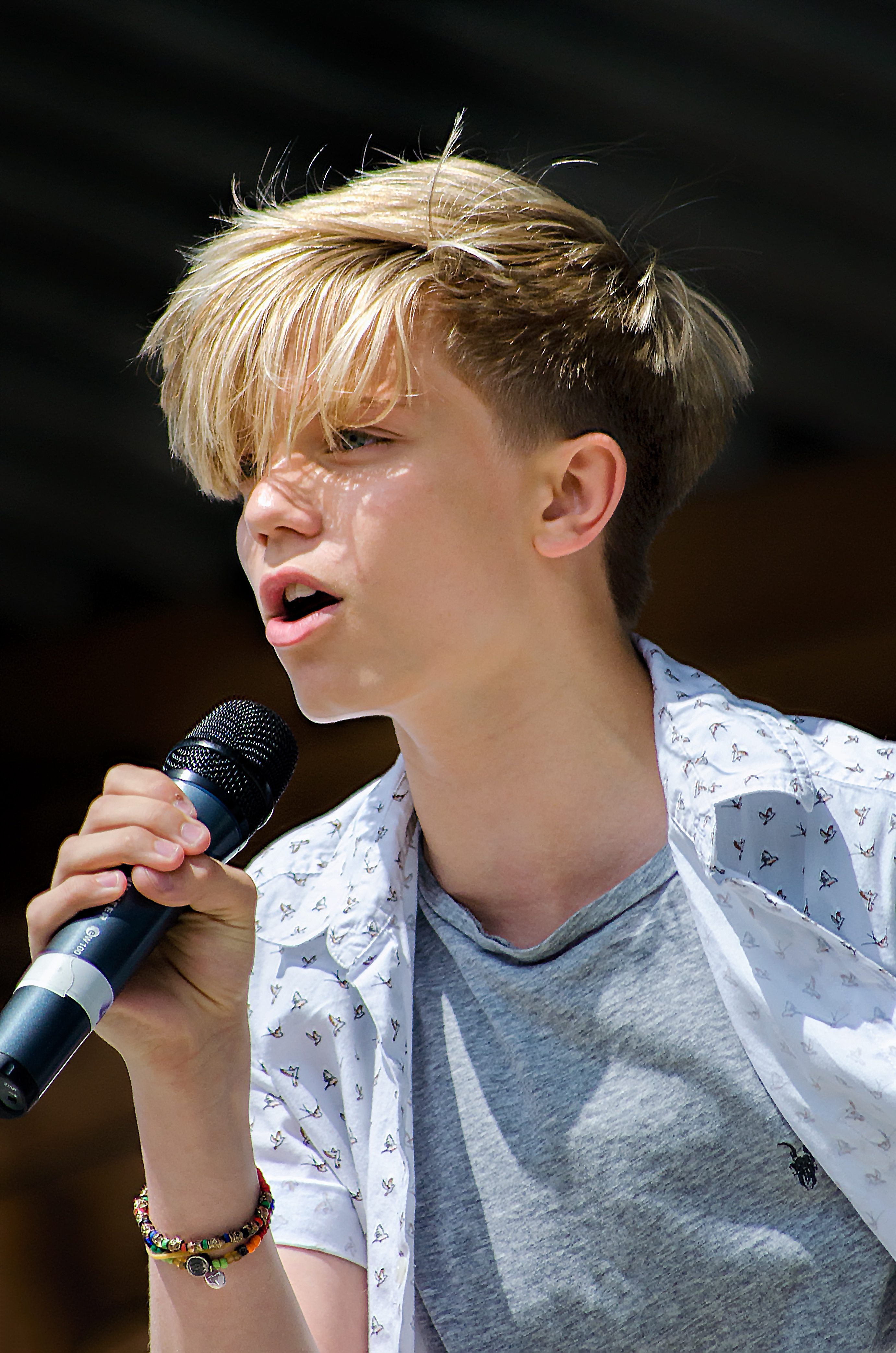 Ronan Parke performing on the Southsound Radio stage at Southmead Festival in Bristol.